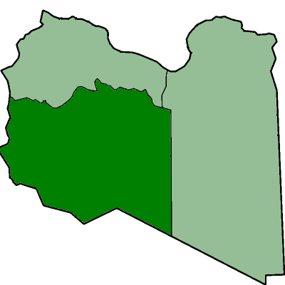 Fezzan Governorate (dark green). After independence in 1951, until 1963, Libya was divided into three governorates (muhafazat): Fezzan, Cyrenaica, and Tripolitania.